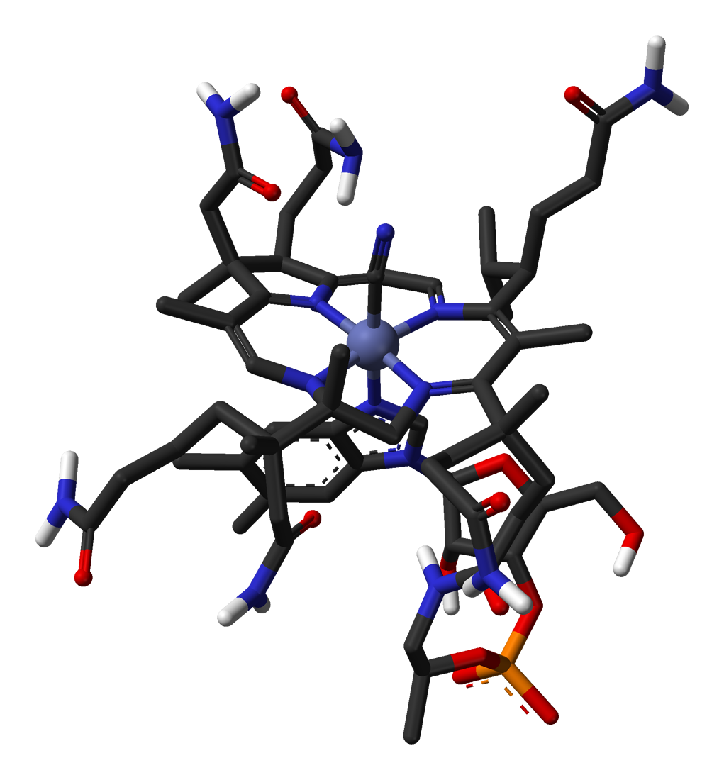 Stick model of cyanocobalamin, based on this model